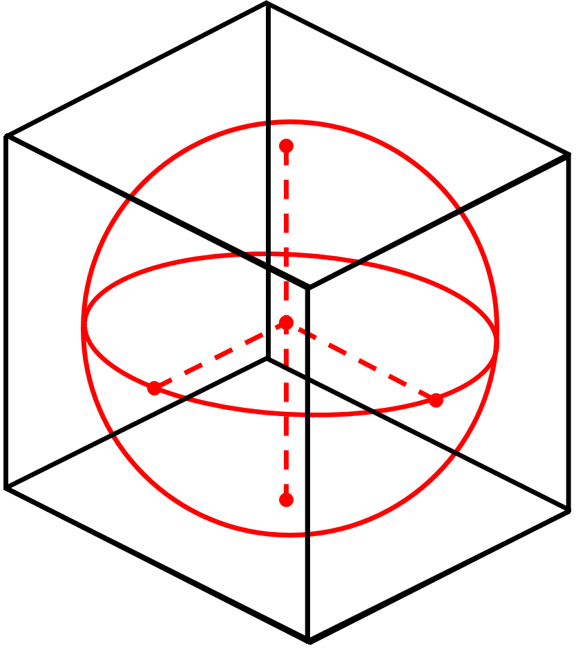 Cube with inscribed sphere